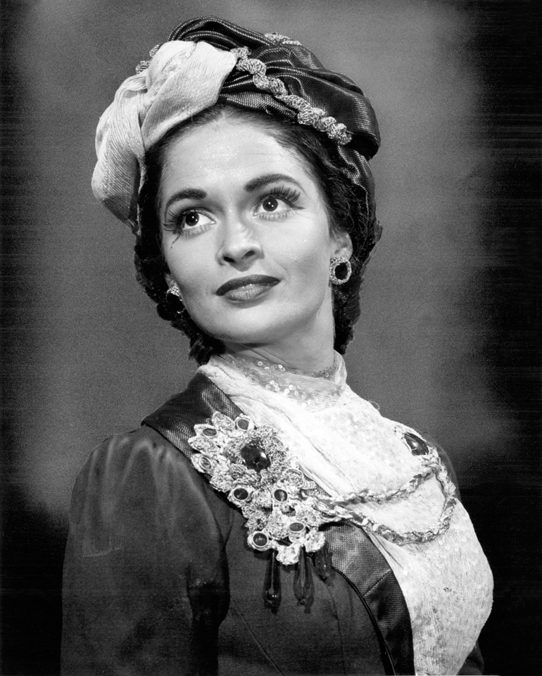 Publicity photograph of Mary Healy for the 1946 Broadway stage production Around the World